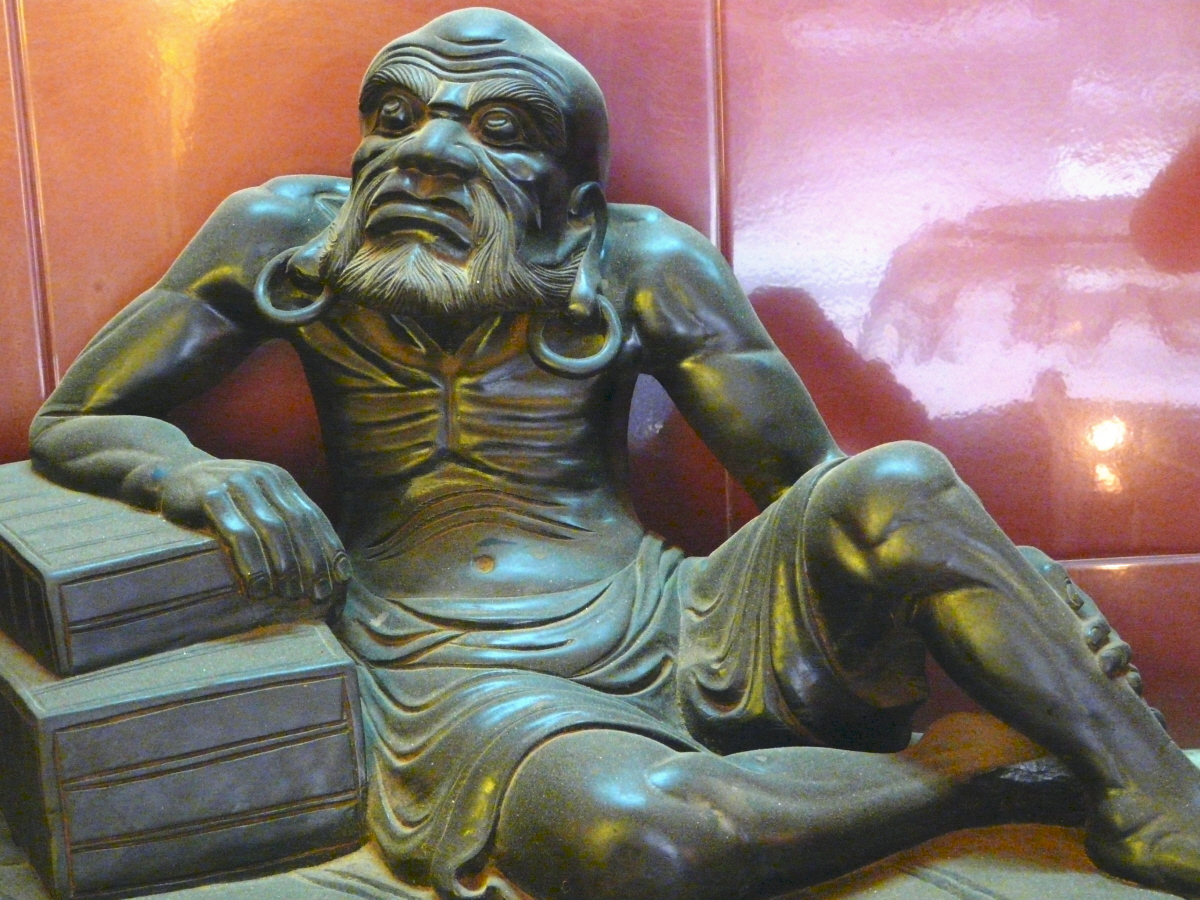 This wooden statue of an arhat (Buddhist holy man) is located in the Quan Am Pagoda, Cho Lon, Ho Chi Minh City, Vietnam.